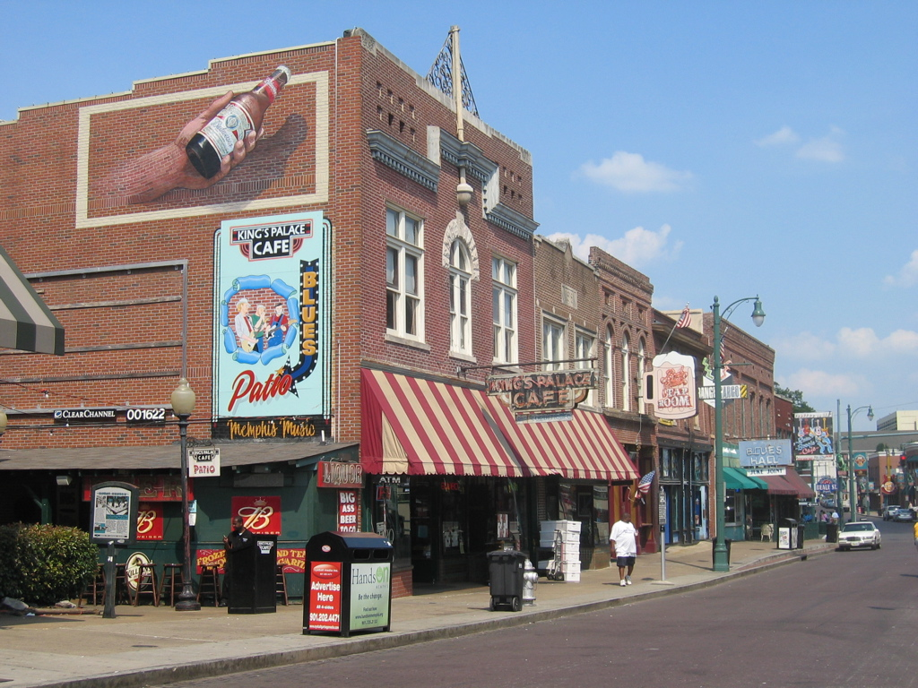 Stores and clubs on Beale Street, Memphis, Tennessee